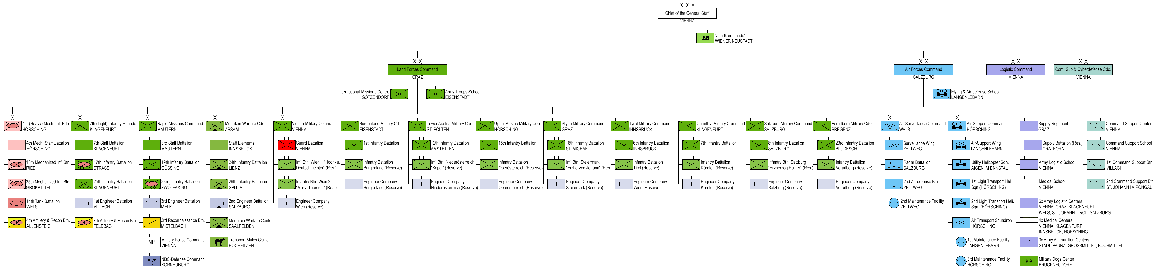 Structure of the Austria Army after the Bundesheerreform 2016